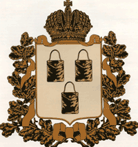 The first arms of the city Sumy